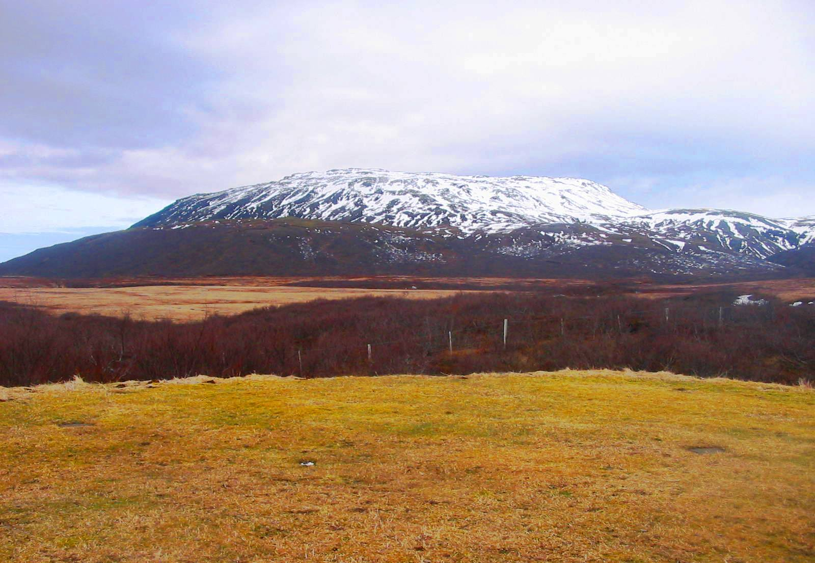 View at Miðhúsaskógur ("Middle house forest"), between Geysir and Laugarvatn in Iceland. Efstadalsfjall (627 m.) is on the back.